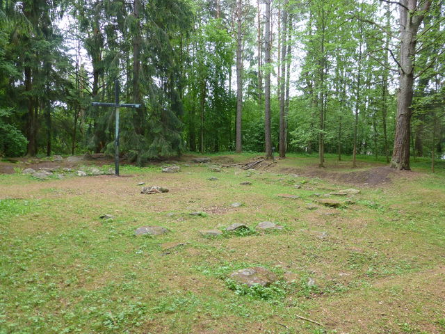 Foundations and the memorial cross of the 14th century Liikistö Church, Ulvila, Finland.